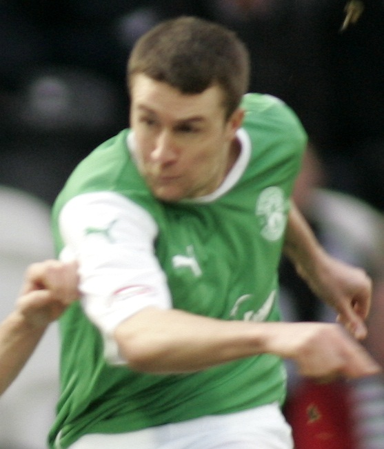 Colin Nish playing for Hibernian FC against St. Mirren FC in a Scottish Premier League match on 2 March 2011